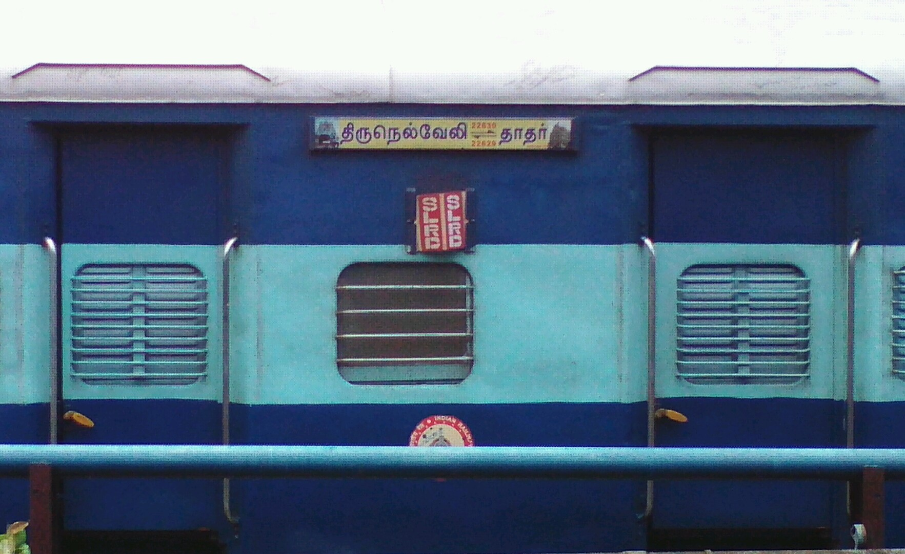 Coachboard of Dadar Tirunelveli Express in Tamil